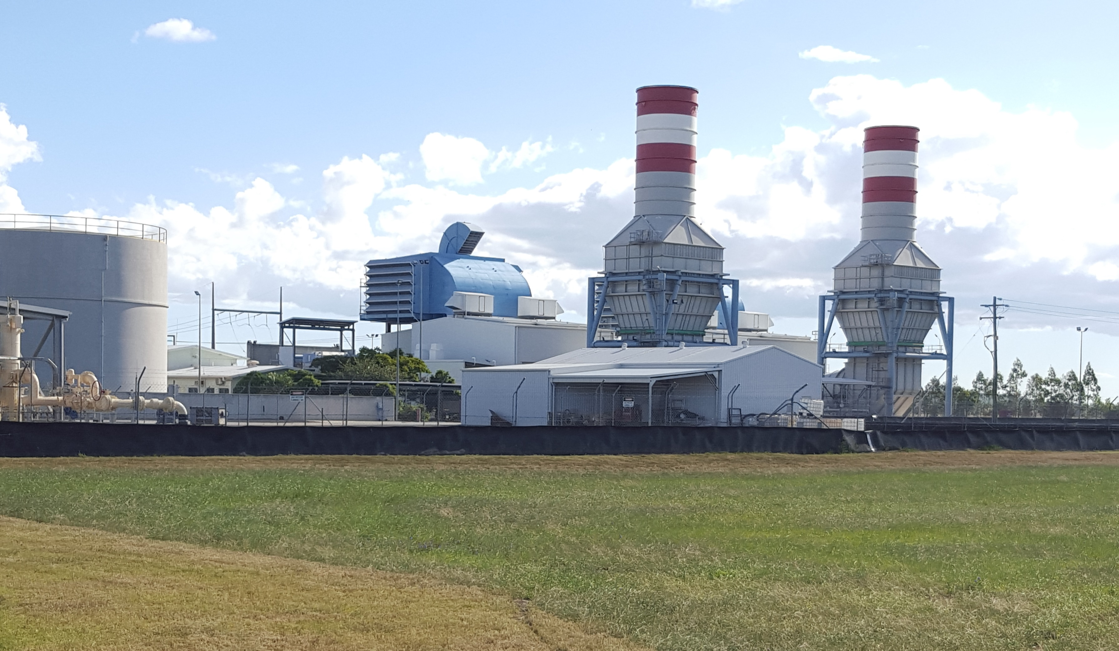 A picture of Oakey Power Station